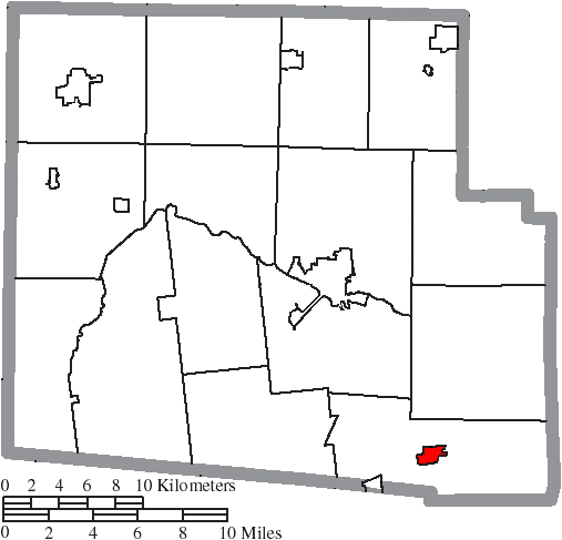 Map of the municipal and township boundaries of Hardin County, Ohio, United States, as of the 2000 census, with the location of the village of Mount Victory highlighted. Township borders are shown only in unincorporated areas in order to differentiate incorporated and unincorporated areas more clearly.